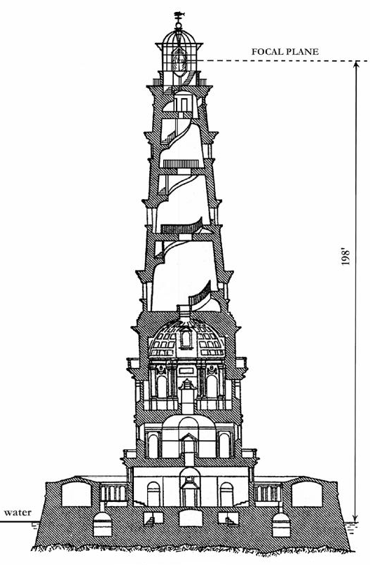 This drawing of Cordouan lighthouse, a European lighthouse is from the 1911 11th Edition of the Encyclopaedia Britannica. Since this edition was published before Jan 1, 1923, the copyright has expired. It is now in the public domain.